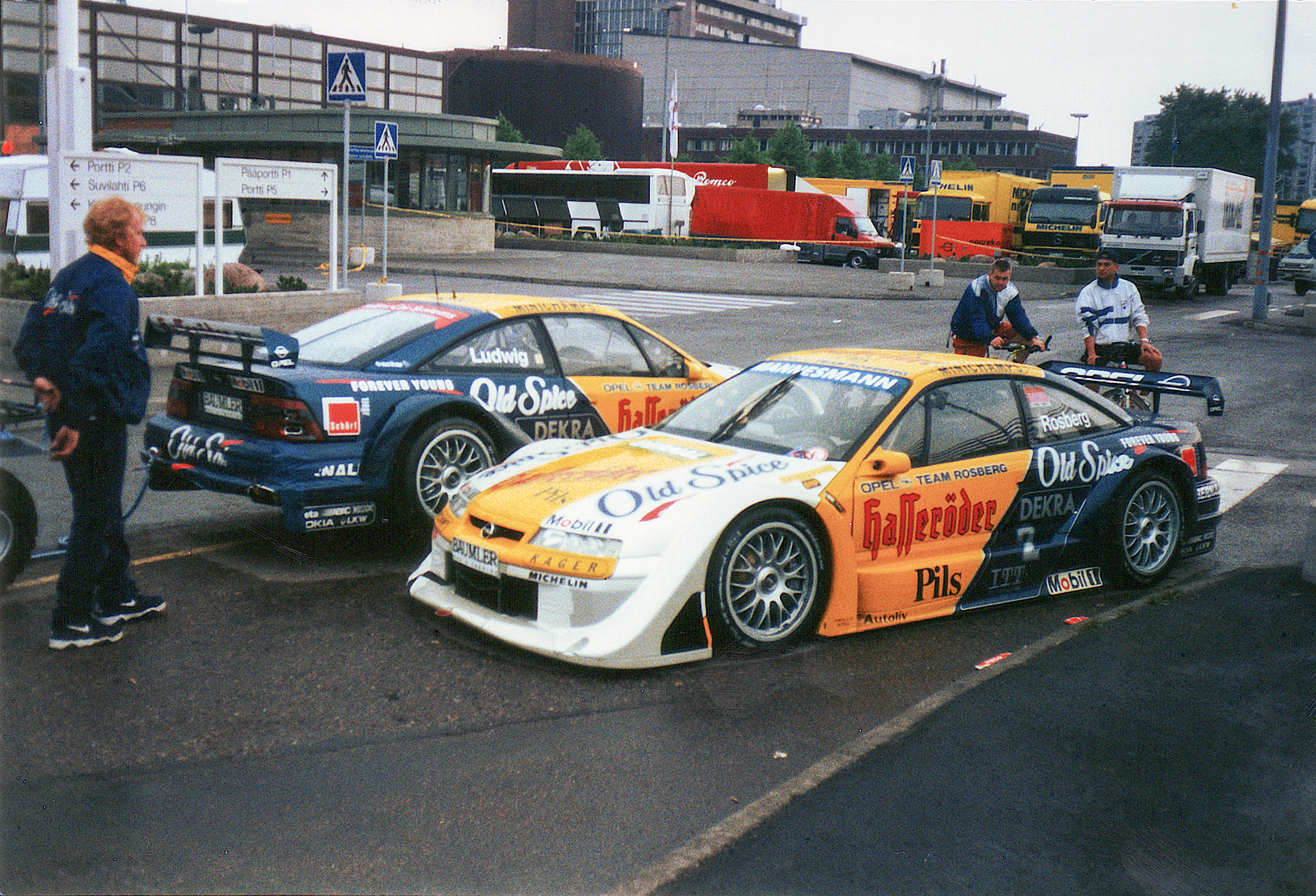 Klaus Ludwig's (on the background) and Keke Rosberg's Opel cars after Helsinki Thunder DTM race in 1995